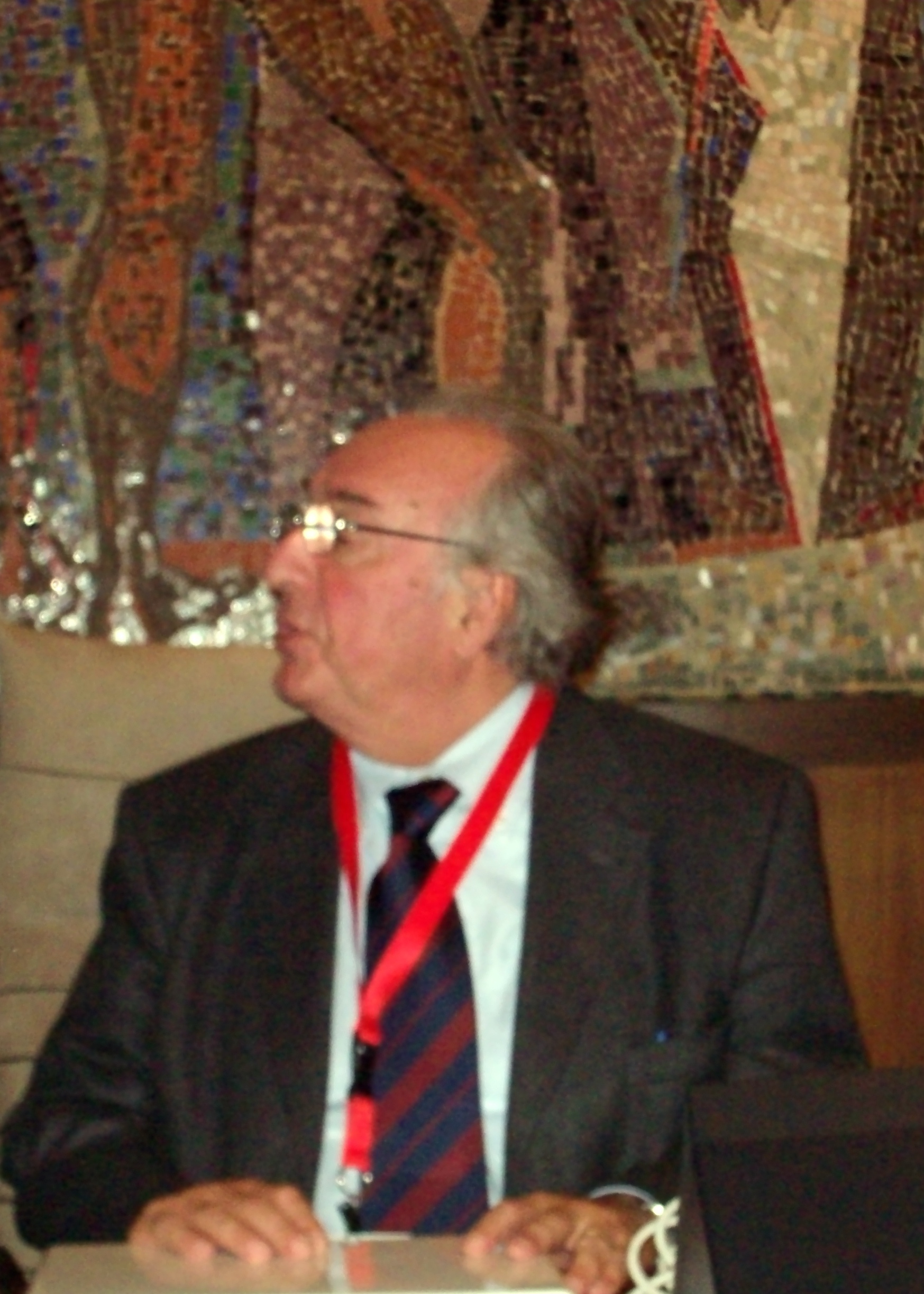 Physicist Luciano Maiani, former CERN Director General (1999-2003), INFN (Istituto Nazionale di Fisica Nucleare - Italian institute for nuclear physics) director (1993-1997) and current CNR (Consiglio Nazionale delle ricerche - italian research council) director (2008-) gives a conference during the "Bergamo Scienza" science festival, in Bergamo, Italy, on 10th October 2008. Conference title: " Giuseppe Occhialini and the evolution of physics in the second half of XXth century".